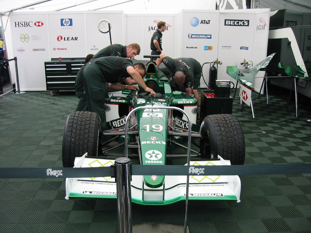 Jaguar R2 on display at the 2001 Goodwood Festival of Speed